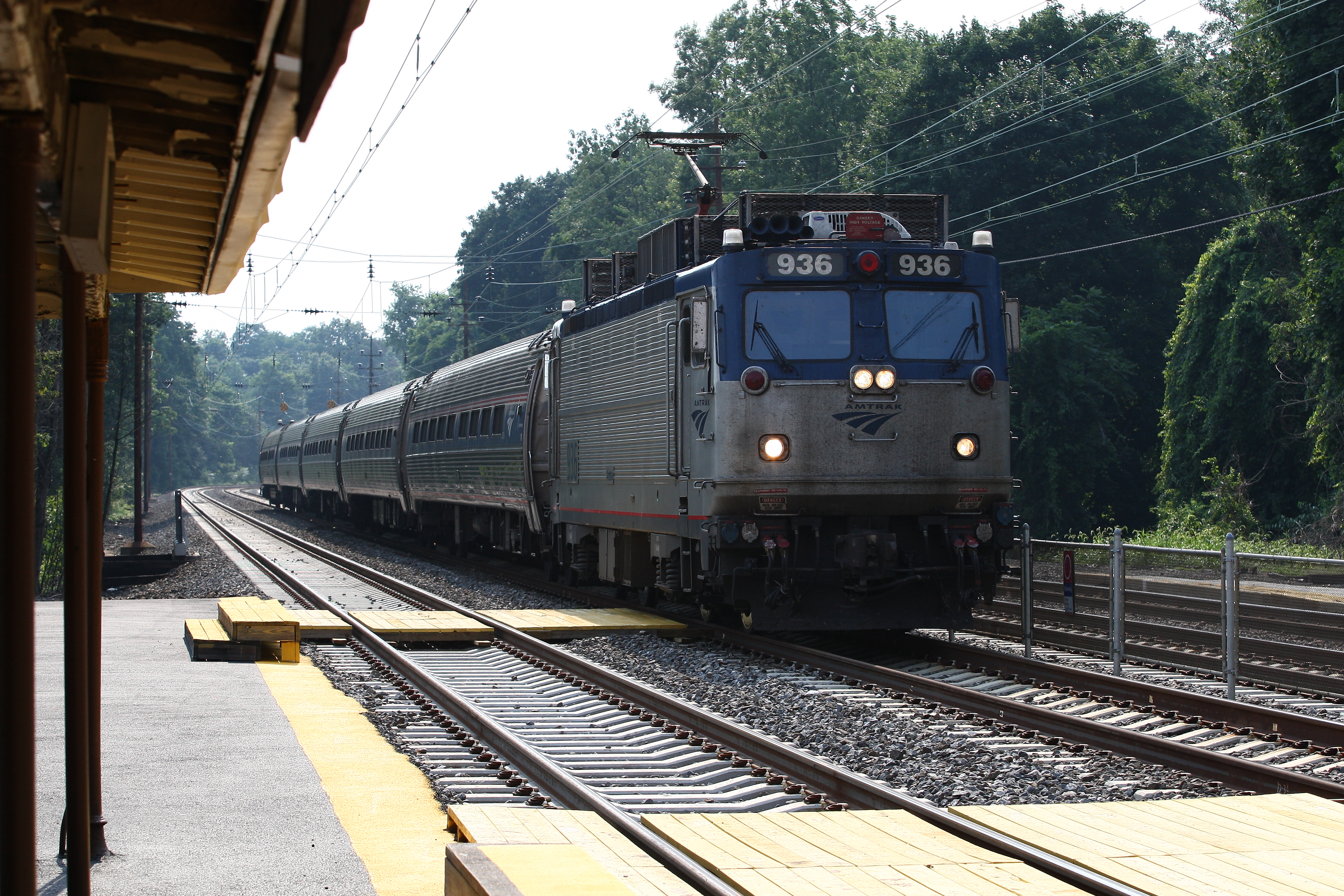 An eastbound Keystone Service train passes through Devon station on the express tracks of the Keystone Corridor